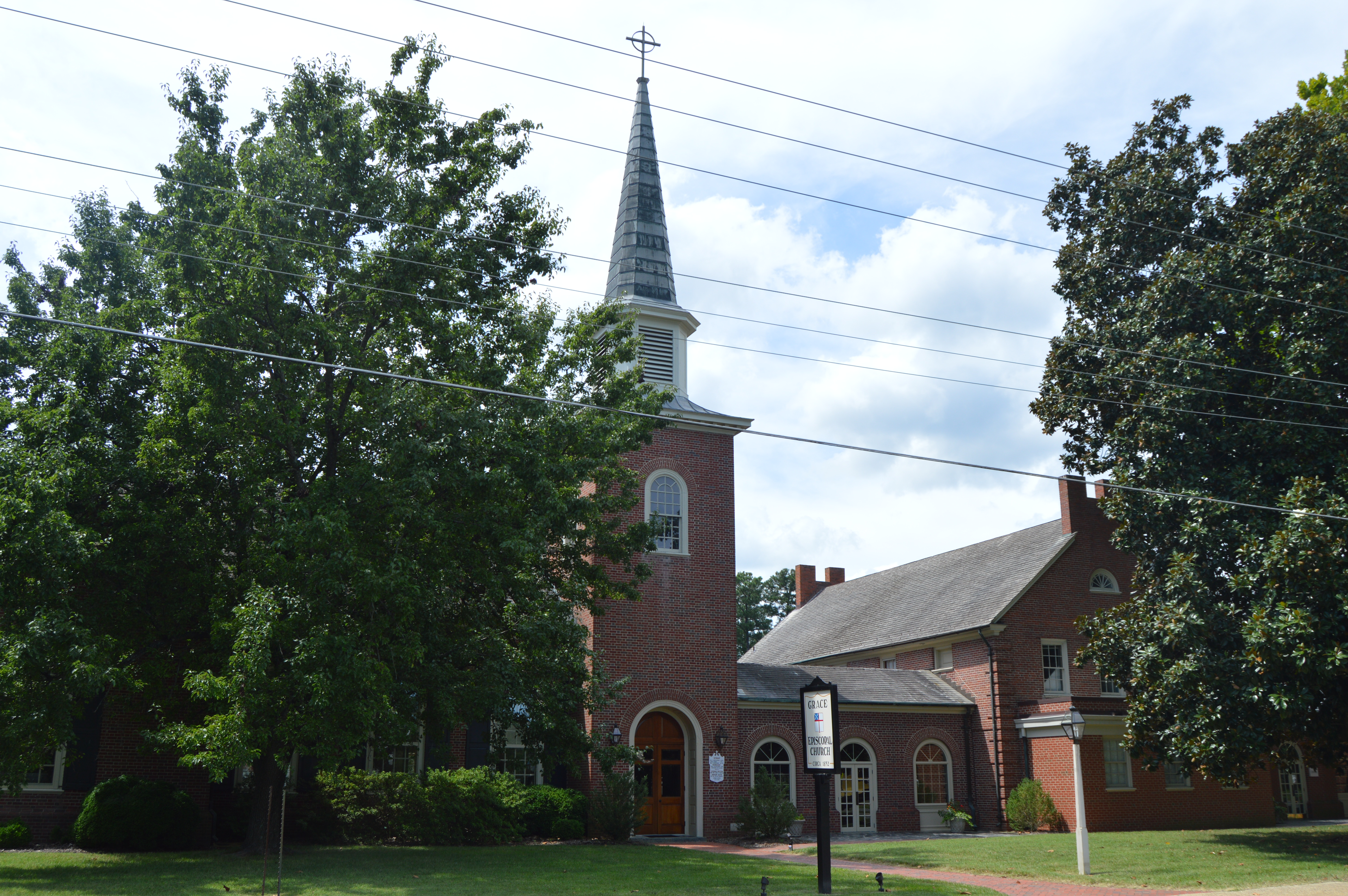 Front of Grace Episcopal Church, located at 303 S. Main Street (State Route 3) in Kilmarnock, Virginia, United States. Built in 1959 to replace an 1852 church (now a rear chapel), it is listed on the National Register of Historic Places.